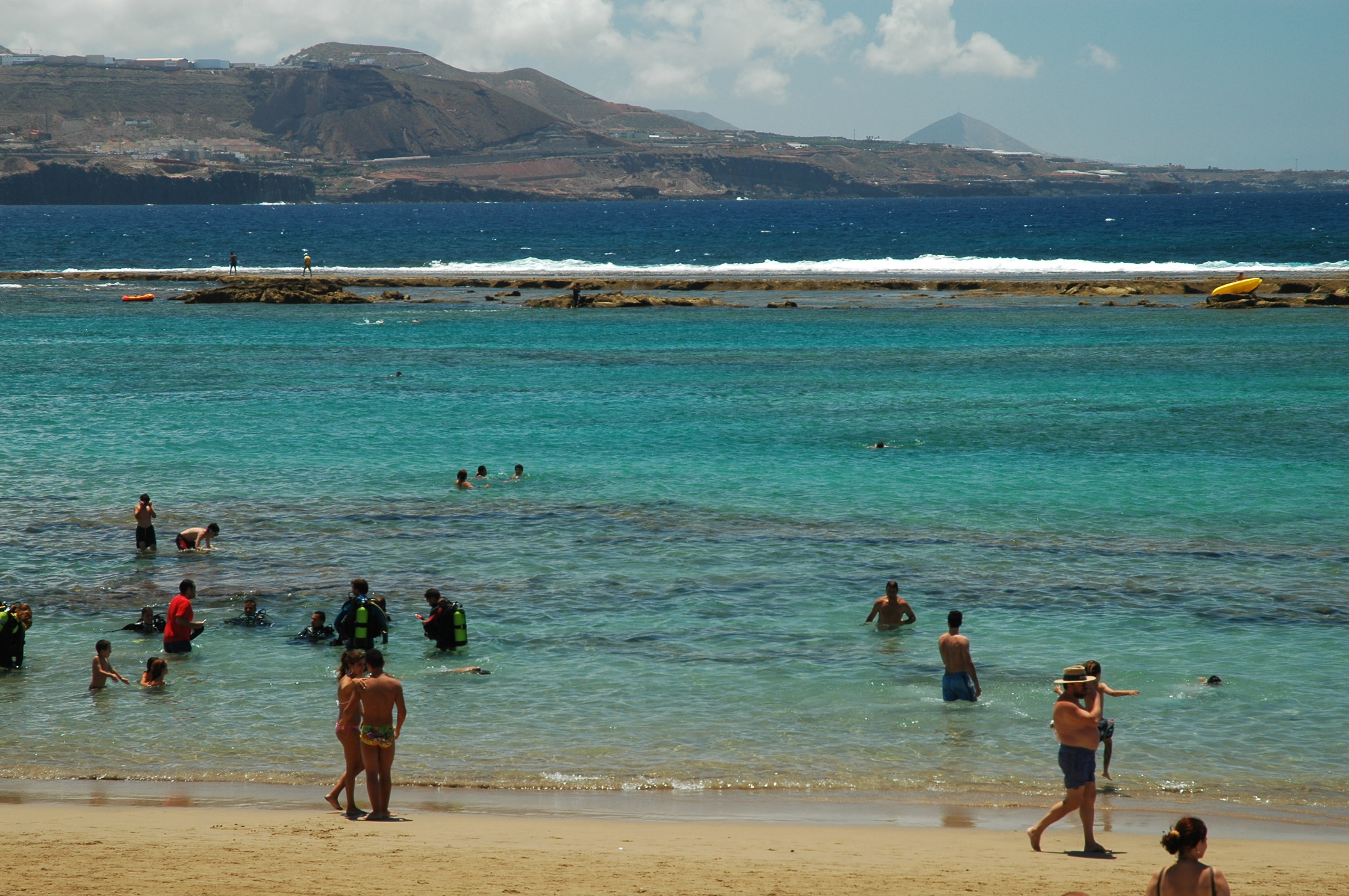 "La Barra", natural reef barrier that protects to Las Canteras Beach in Las Palmas de Gran Canaria. Canary Islands, Spain.